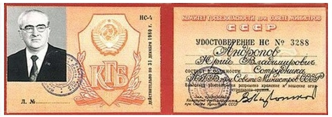 Identity cards The Chairman of the KGB of the USSR Yuri Andropov. Expires on 31 December 1980